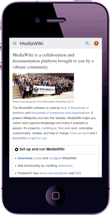 Mediawiki mockup showing on a mobile device